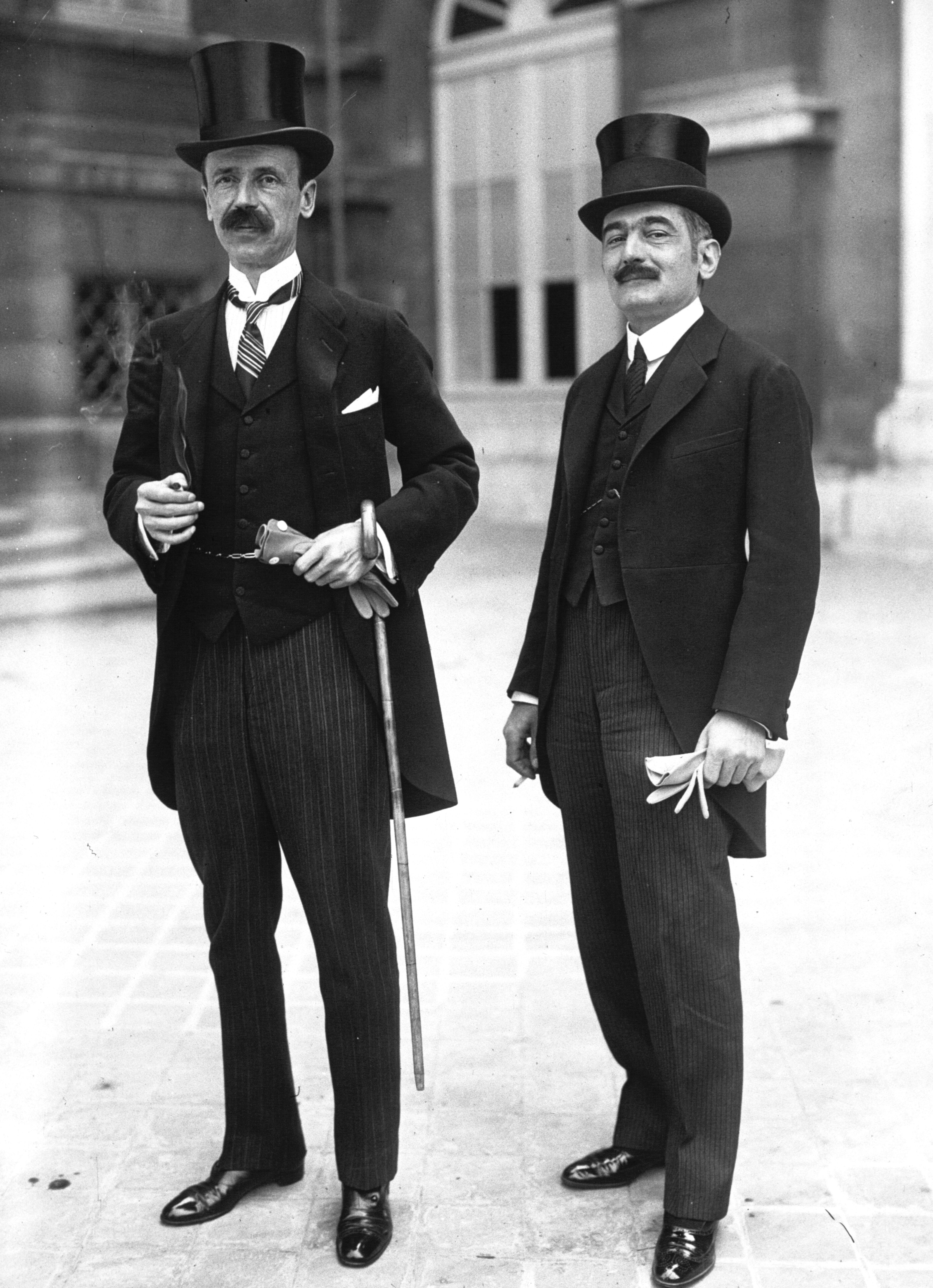 From left to right: Hungarian Prime Minister István Bethlen (1874-1946) and Hungarian Finance Minister Tibor Kállay (1881-1964).